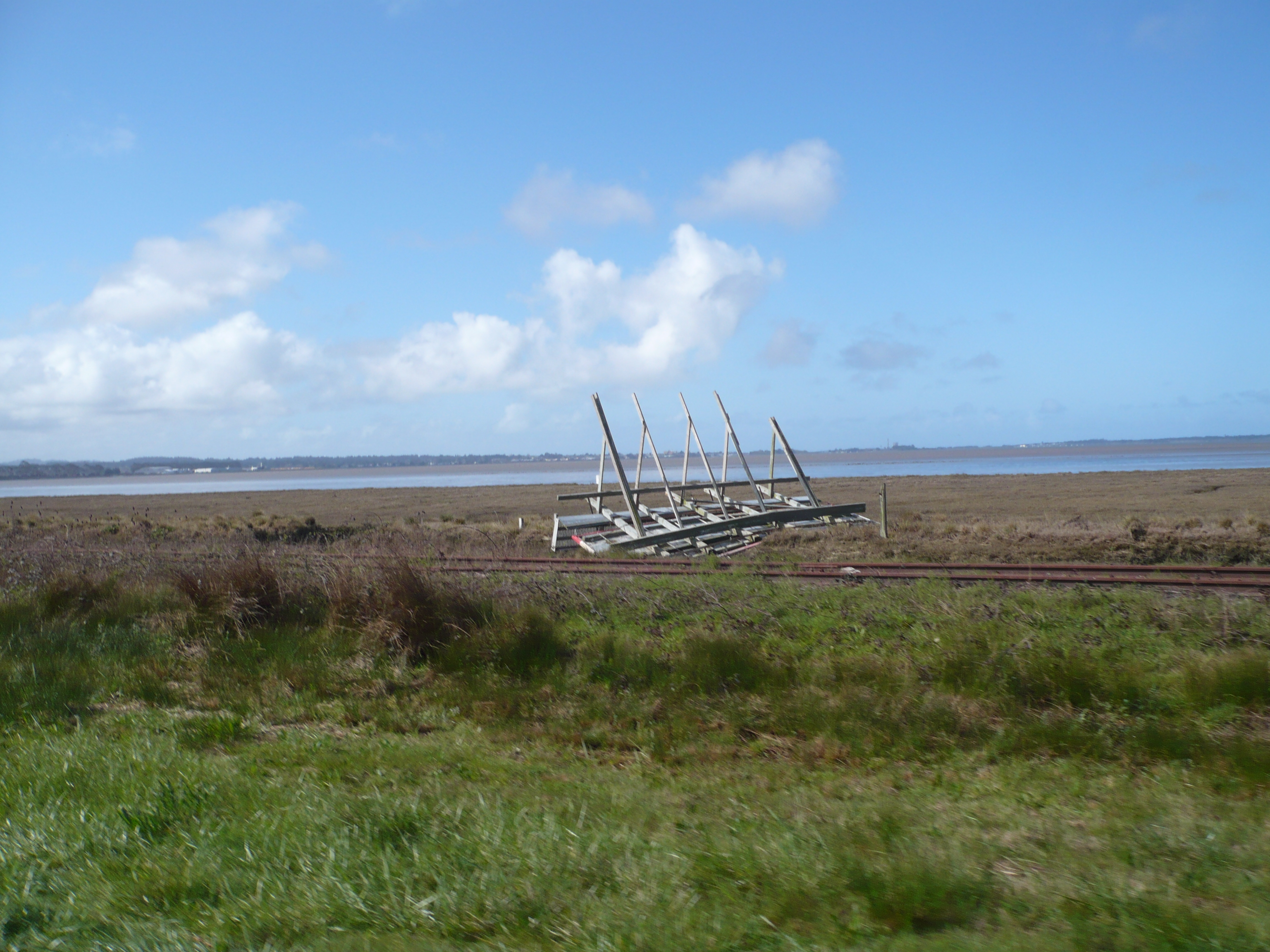 Northern billboard, the second of three billboards in tidal marshlands of Humboldt Bay cut down in early January 2014 by an unknown perpetrator dubbed the "Billboard Butcher" by local media. The billboards are in a tidal zone subject to laws, rules and rights of the California Coastal Commission, the North Coast Railroad Authority, United States Fish and Wildlife Service, the County of Humboldt, and various private landowners. The city in the distance is Eureka, California.